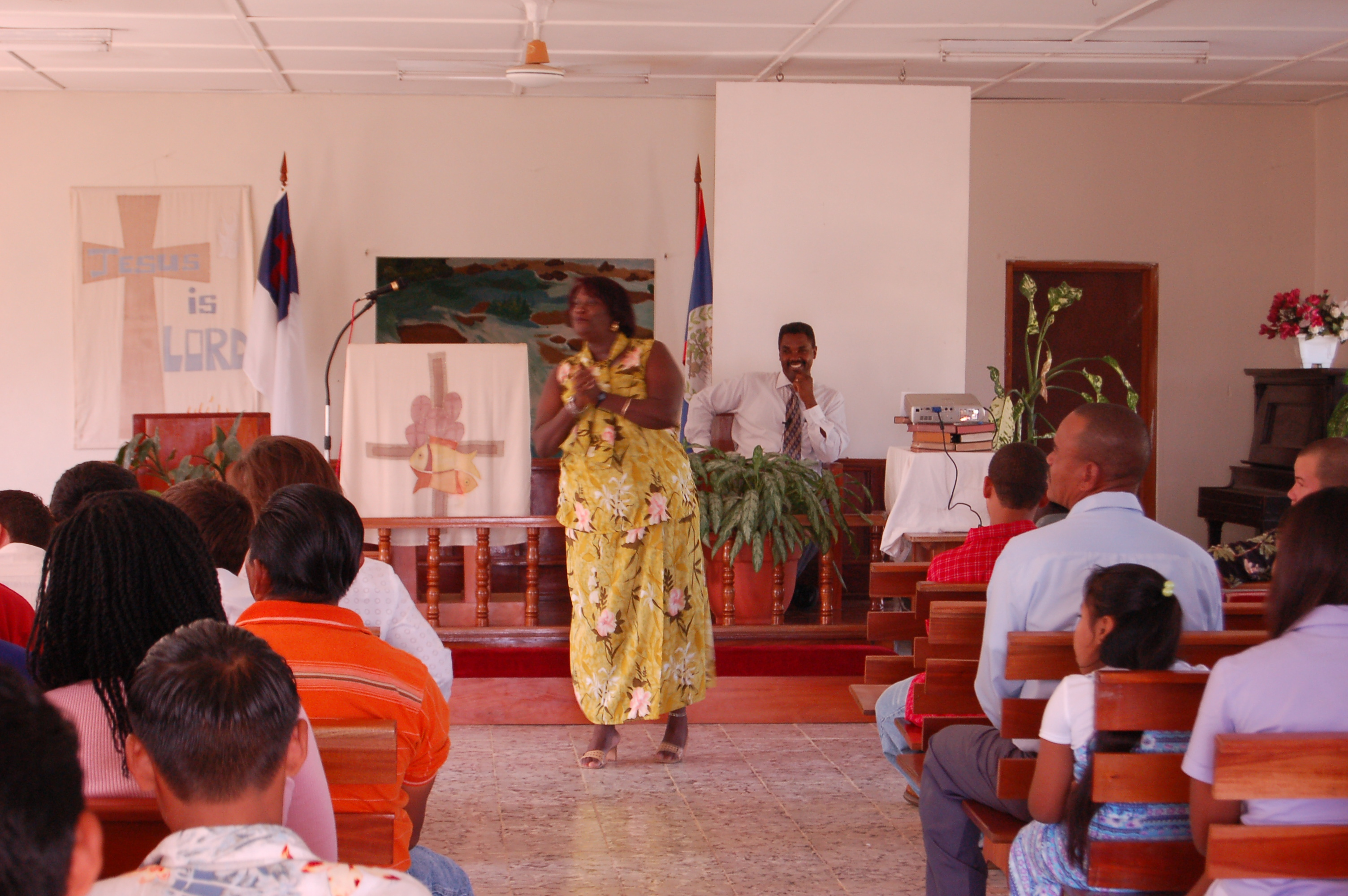 Sunday services at Belmopan Baptist Church, Pastor Norman Willacey in white shirt to the right of the lady speaking. Nice bunch of people.